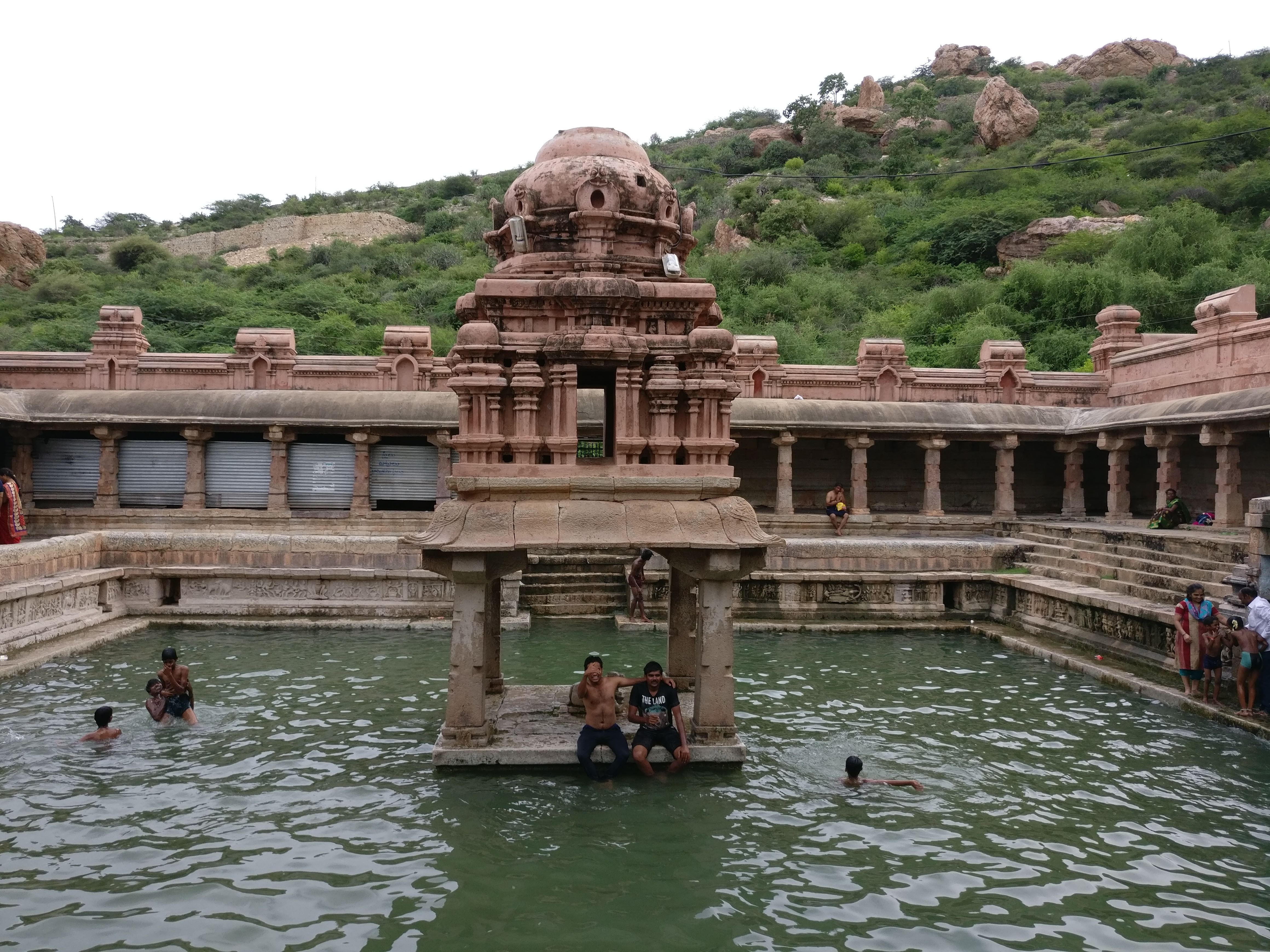 Pushkarani At Yaganti Temple